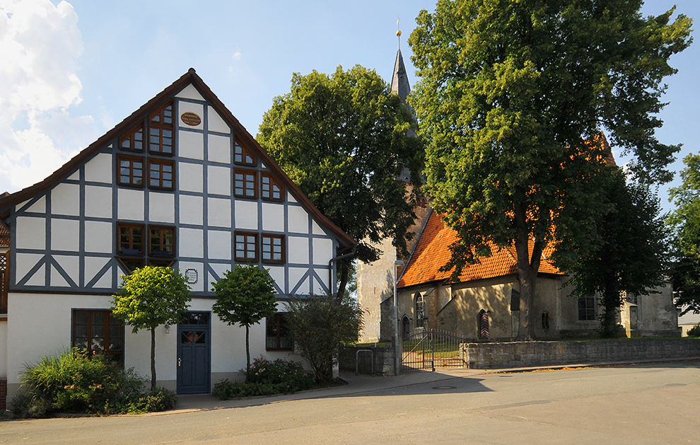 Center of Adensen, Nordstemmen, district Hildesheim, Lower Saxony, Germany.